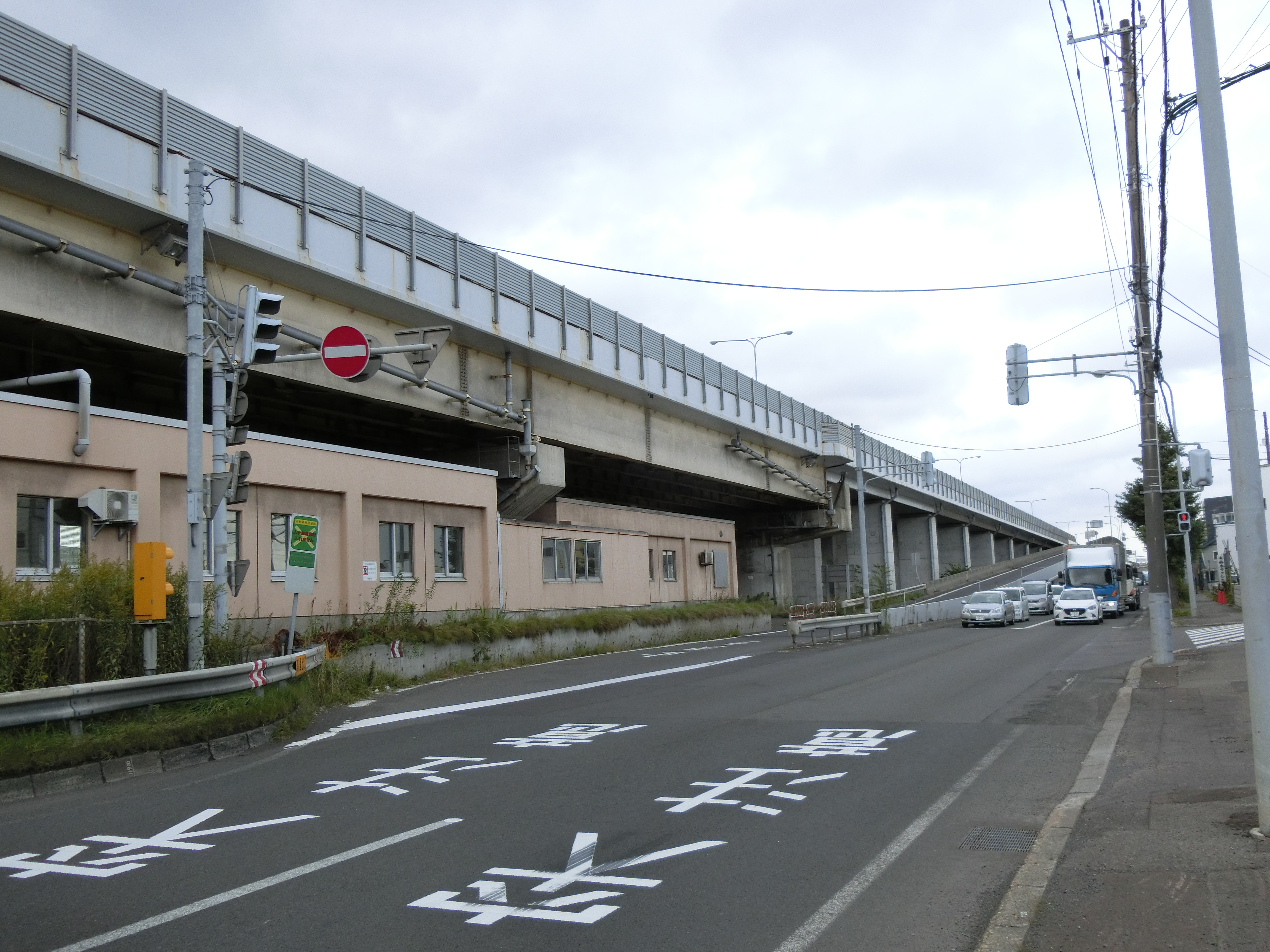 Exit of Oyachi Interchange on Hokkaido Expressway, located in Heir-Dori, Shiroishi Ward, Sapporo, Hokkaido